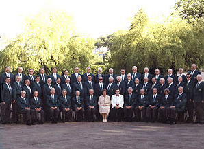 Pontypridd Male Voice Choir